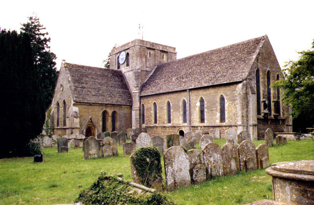 All Saints' parish church, Faringdon, Oxfordshire (formerly Berkshire), seen from the southeast, showing the chancel (right), south transept (left) and tower (centre)